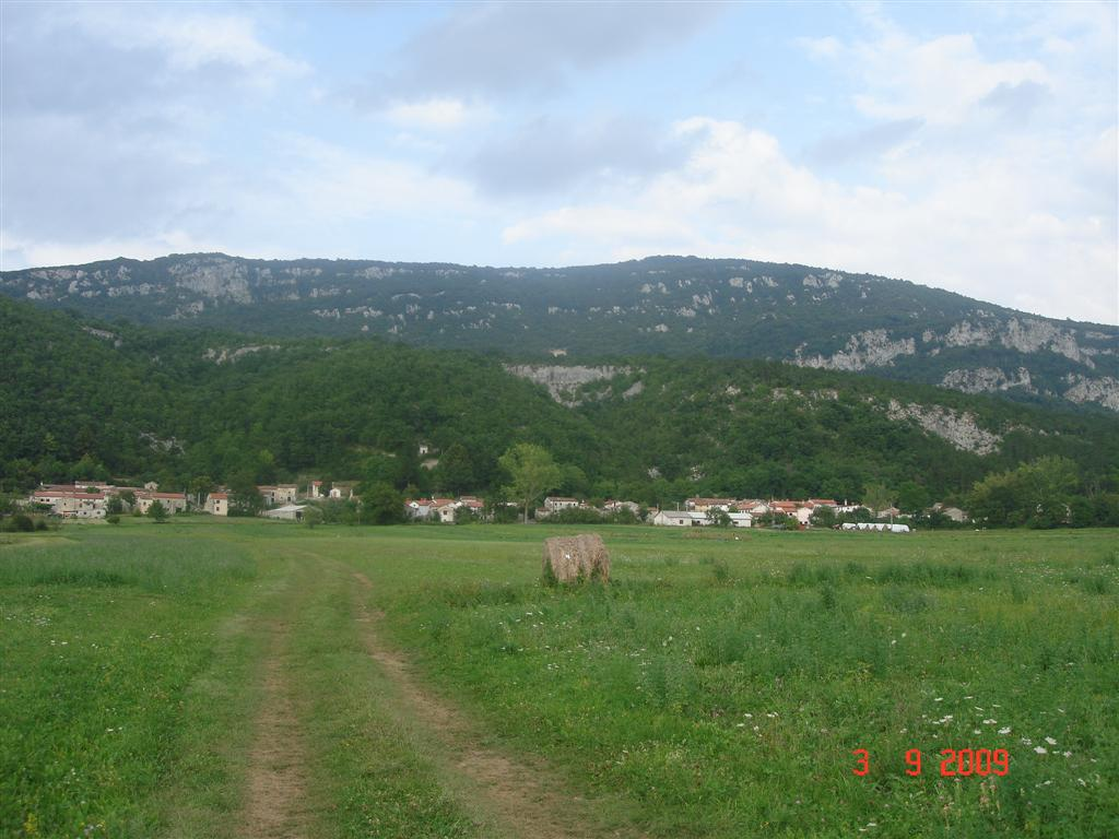 Podgace, sept 2009